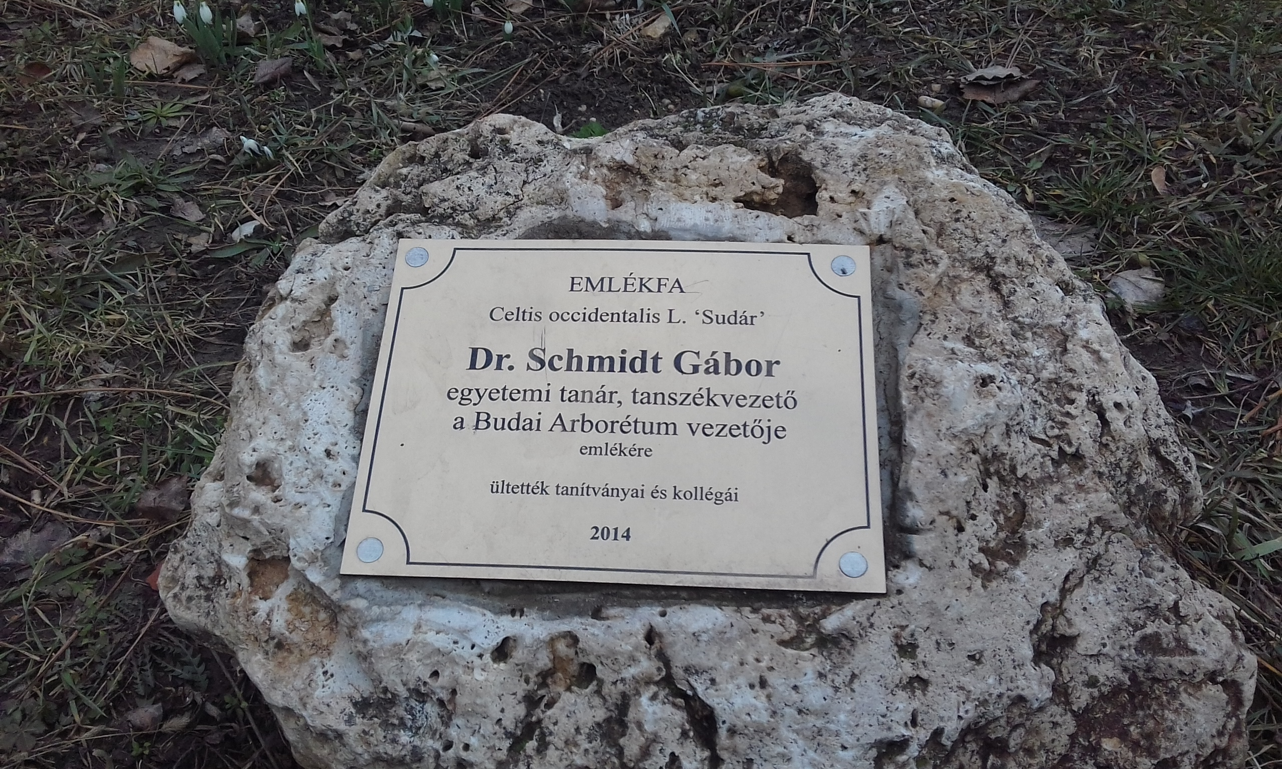 Schmidt Gábor emlékköve a Budai Arborétumban